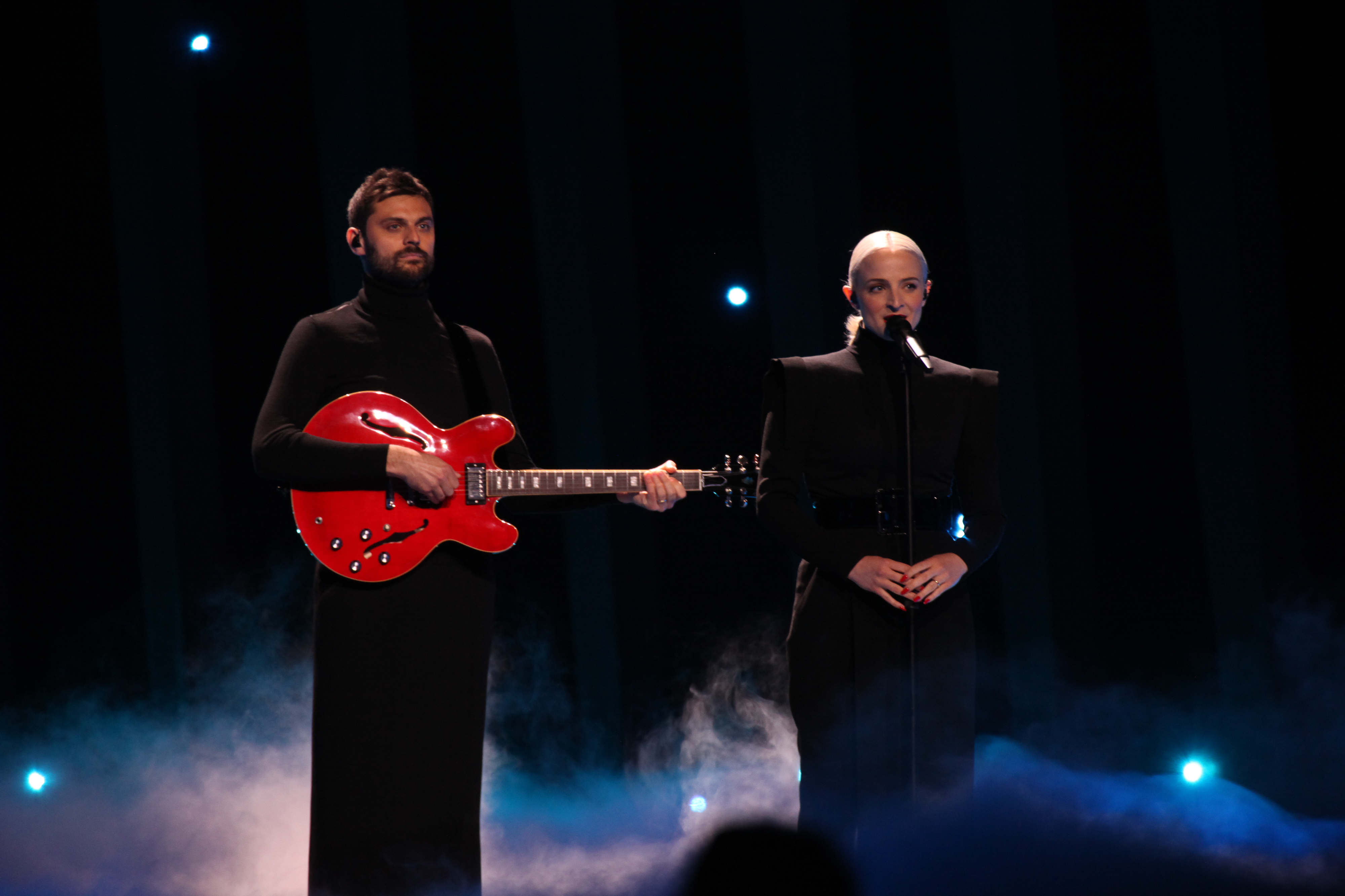 Madame Monsieur representing France with the song "Mercy" during a rehearsal before the grand final of the Eurovision Song Contest 2018 in Lisbon.